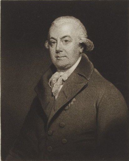 Portrait of James Bindley (1737–1818), English antiquary, known as a book collector.